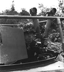 Oberleutnant Karl Rossmann with Sdkfz 250.